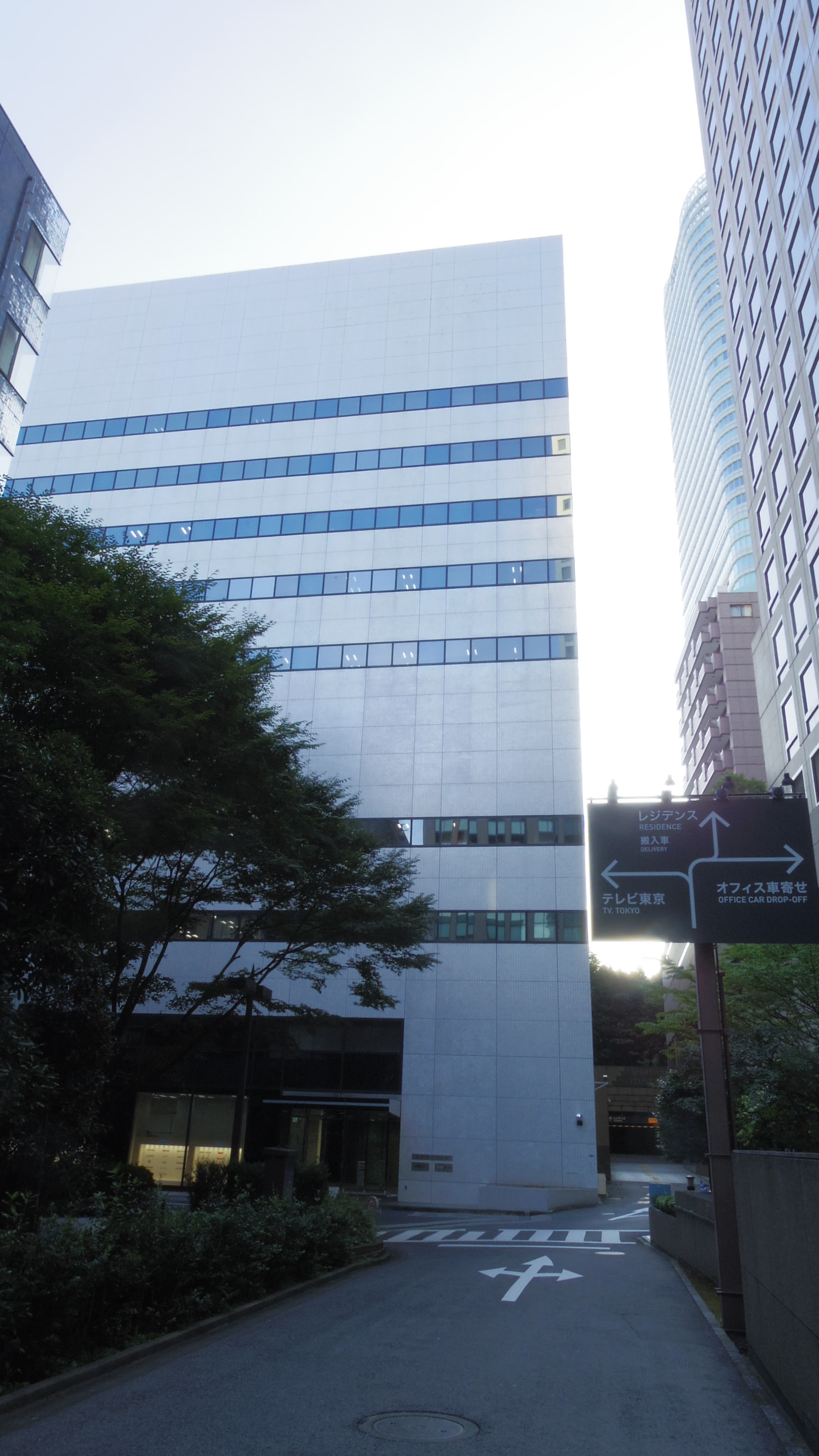 TV Tokyo Kamiyachō Studio（4-3-12 Toranomon, Minato-ku, Tokyo. ex. TV Tokyo headquaters）